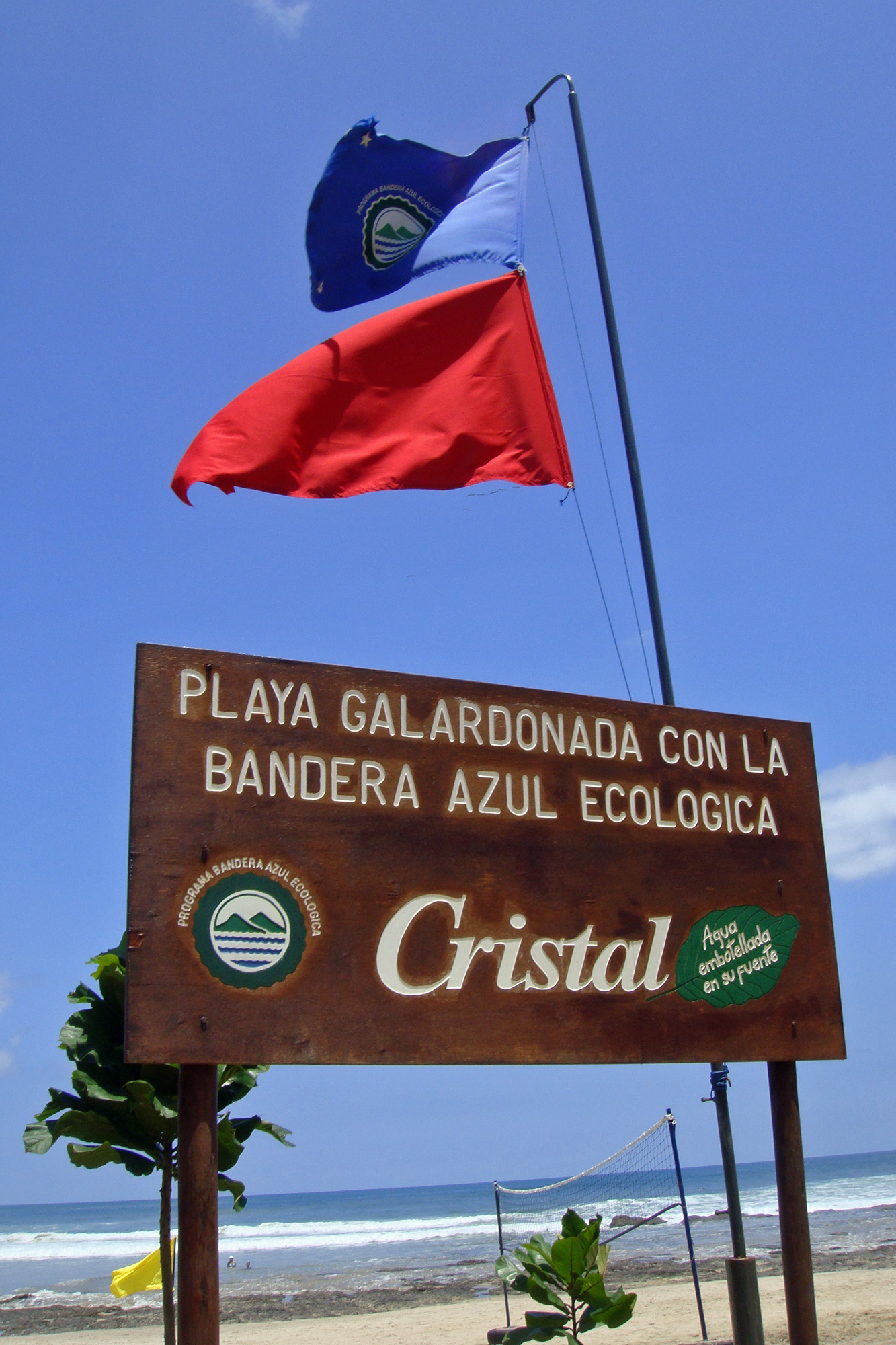 Beach sign and flag from the "Bandera Azul Ecológica" (Ecological Blue Flag) Program at Langosta Beach, Las Baulas Marine National Park, Tamarindo, Guanacaste, Costa Rica.